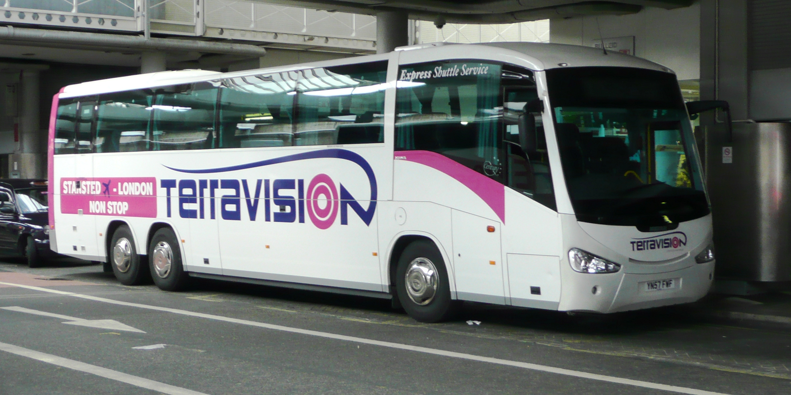 A Terravision coach on the Stansted Airport to London service, in the Green Line Coach station in London.